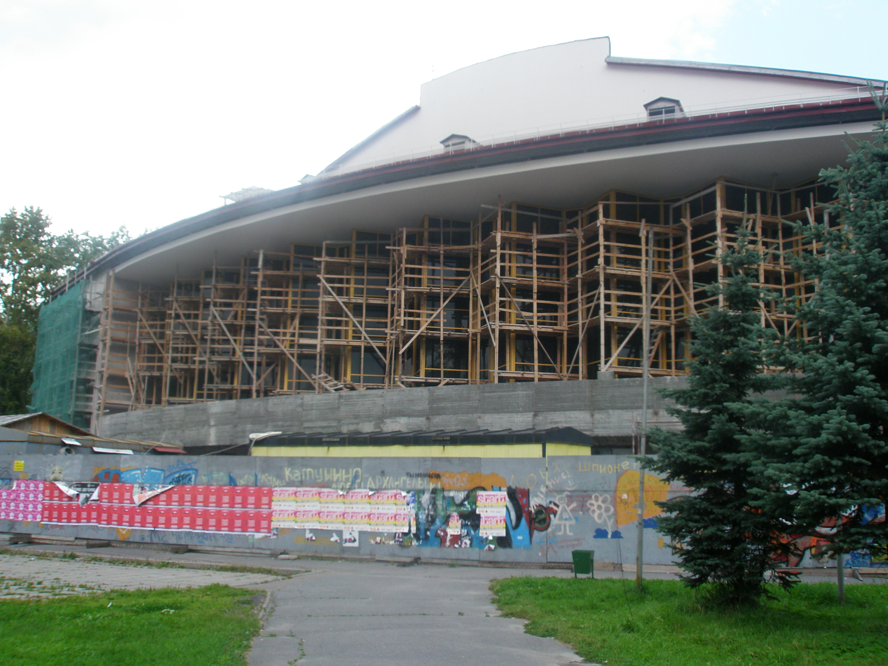 Arkhangelsk theatre drama Lomonosov during reconstruction